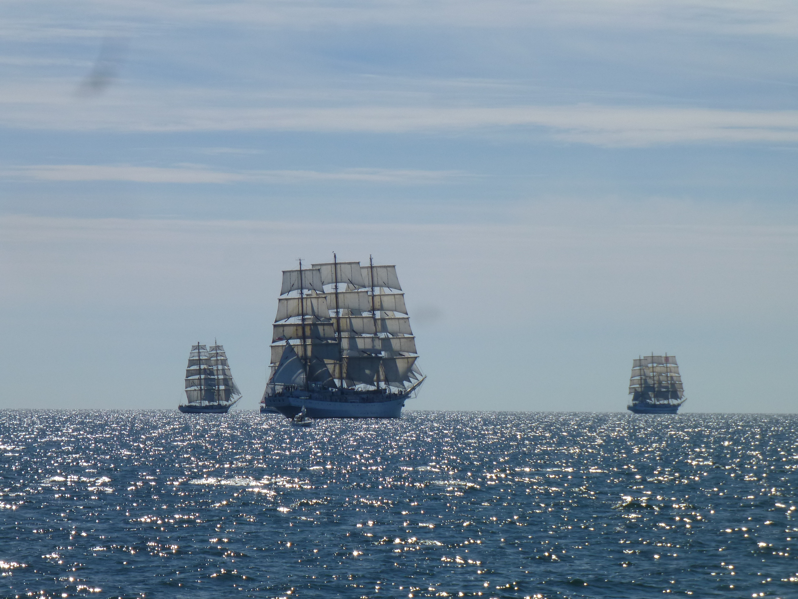 Start of the race of the Talls ship 'races 2017 between Turku and Klaipeda.